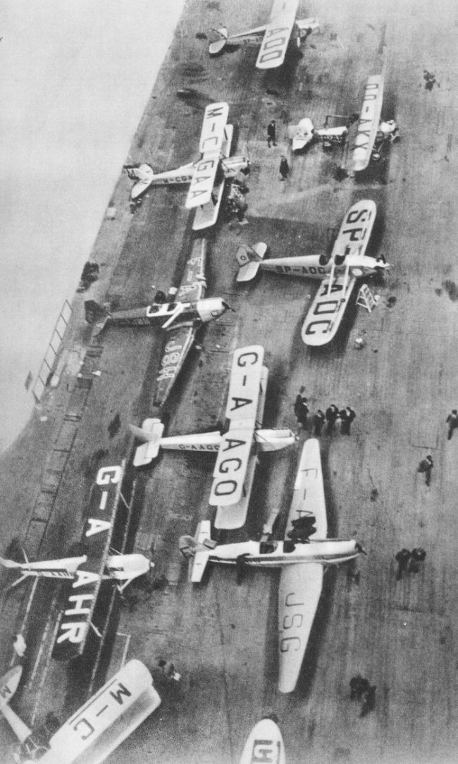 The aircraft before the Challenge 1930 contest, in Zeppelin hangar at Berlin-Staaken. From the top: SP-ADD - PWS-52 (Poland, pilot Franciszek Rutkowski, not completed) OO-AKY - St. Hubert G1 (Belgium, in the French team, pilot Jacques Maus, not completed) M-CGAA - DH.60G Gipsy Moth (Spain, pilot Ansaldo d'Estremera, not completed) SP-ADC - PWS-51 (Poland, pilot Józef Lewoniewski, not completed) F-AJSH - Caudron C.193 (France, pilot Francois Arrachart, 24th place) G-AAGO - Simmonds Spartan (did not participate in the Challenge) G-AAHR - DH.60G Gipsy Moth (Great Britain, pilot Hubert Broad, 8th place) F-AJSG - Caudron C.193 (France, pilot Cornez, not completed) M-CKAA - DH.60G Gipsy Moth (Spain, pilot Antonio Habsburg-Bourbon, 30th place)